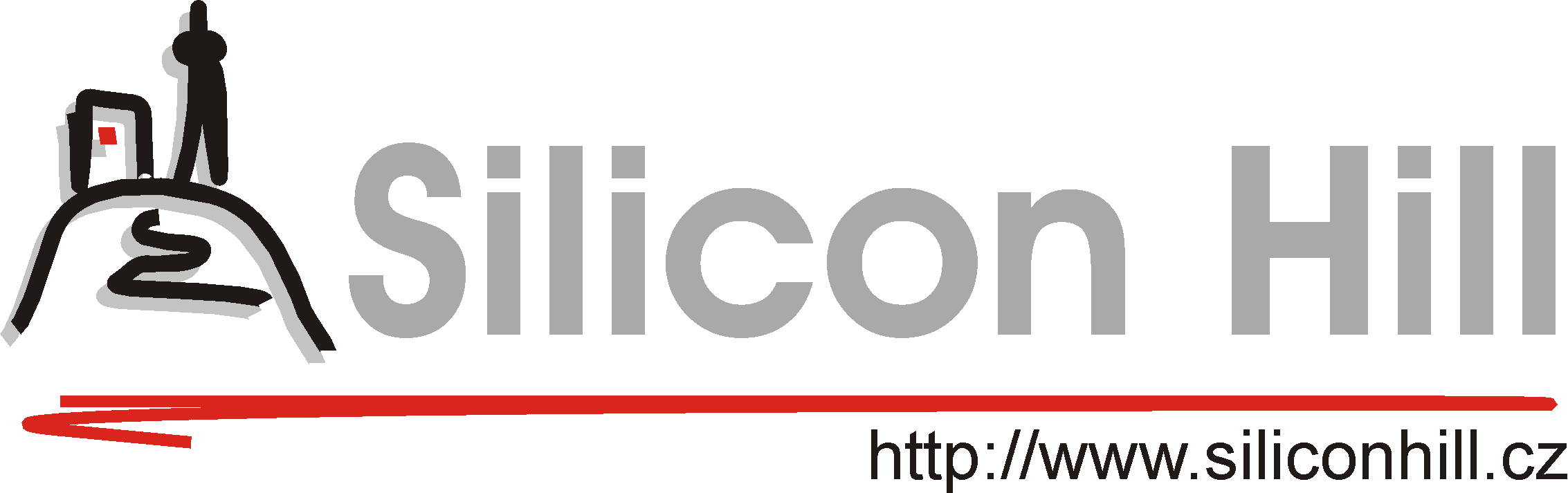 Logo of student club Silicon Hill, member of Student union of CTU of Prague